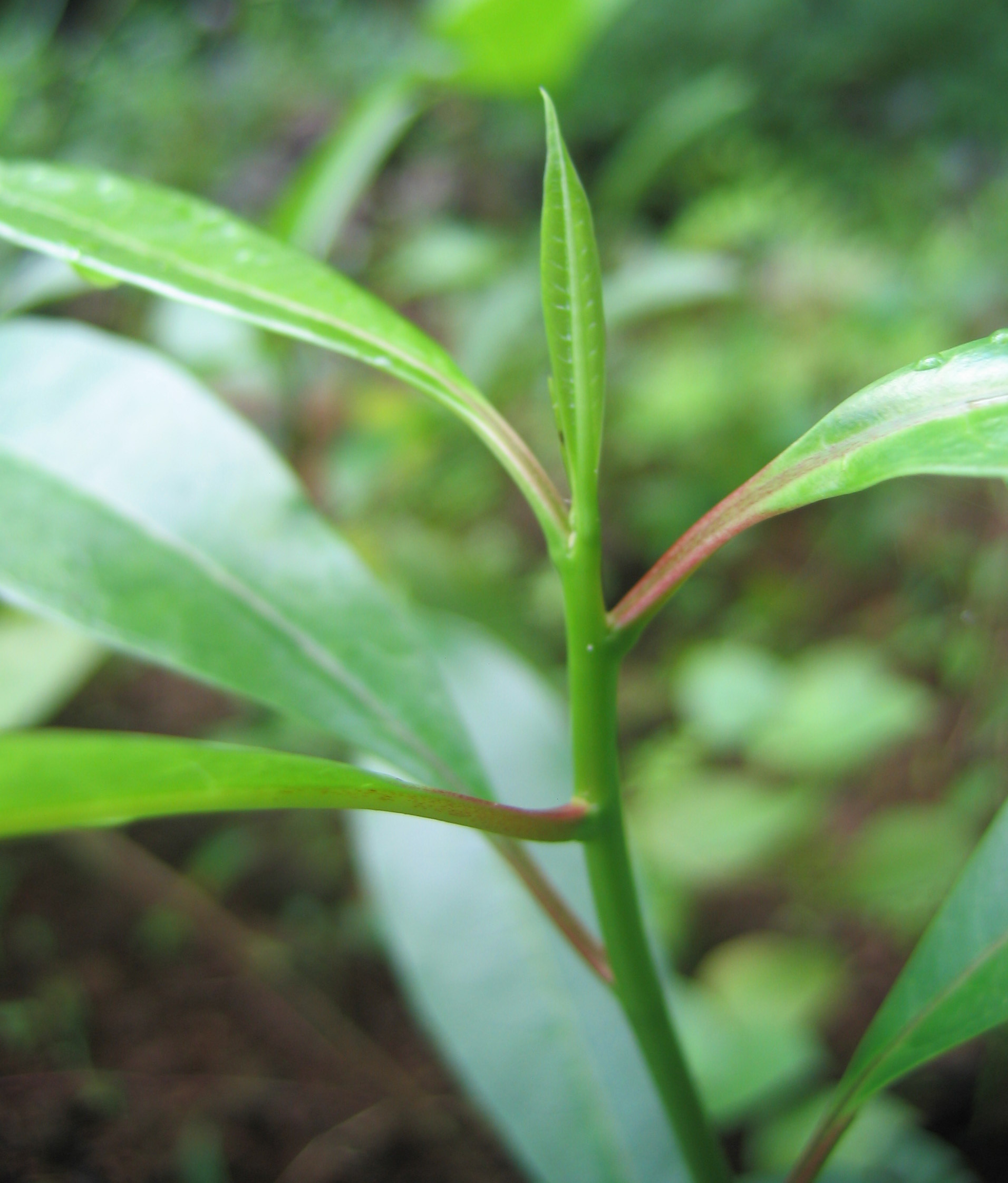 Cerbera odollum bud - ഒതളത്തിന്റെ തളിര്‌